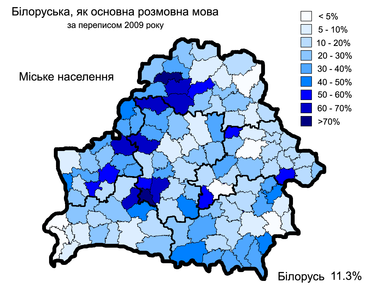 Belarusian as a "language spoken at home" among the urban population according to the 2009 Belarus Census